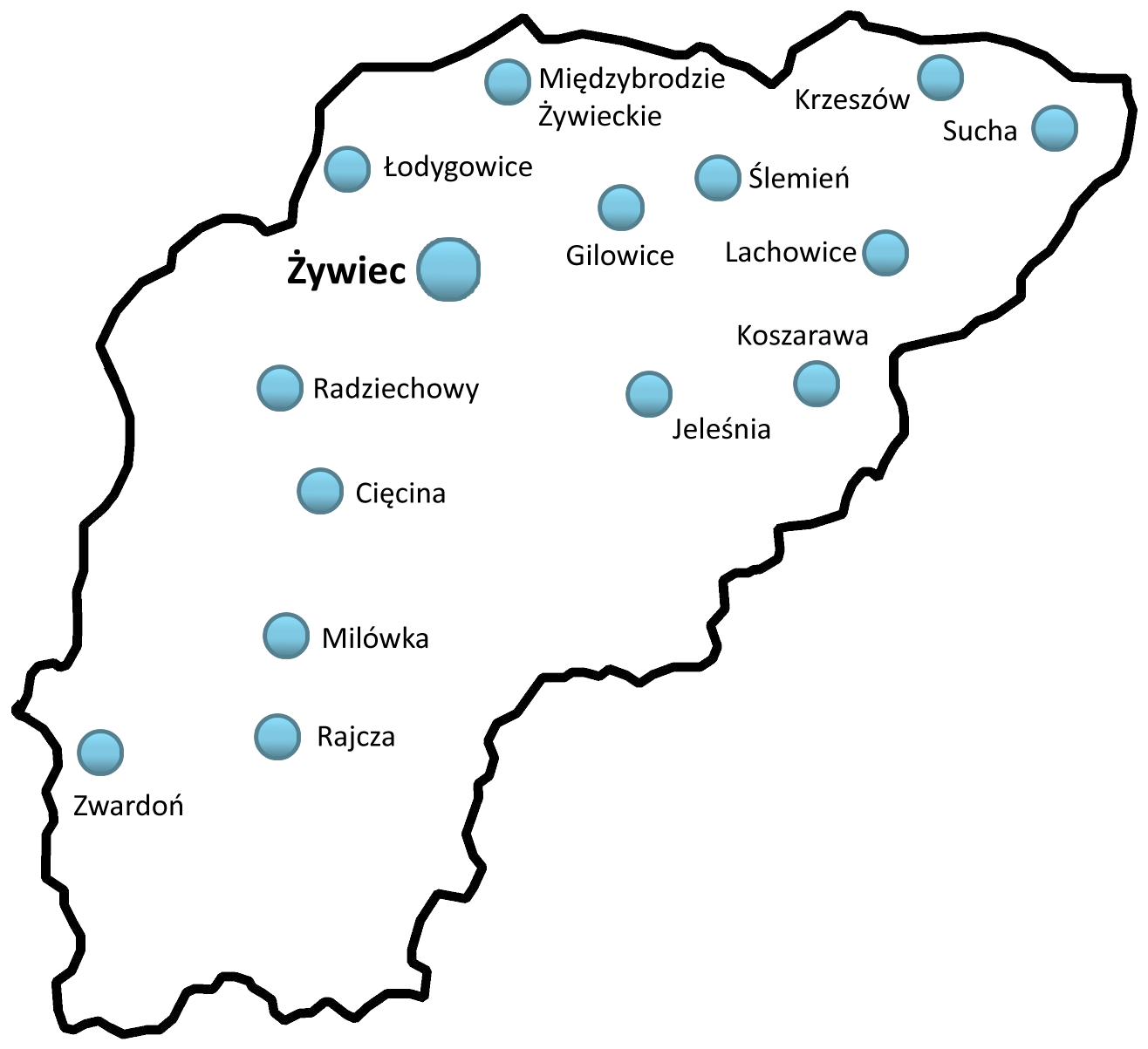 Żywiec country (Poland), 1932-1939 and 1945-1951